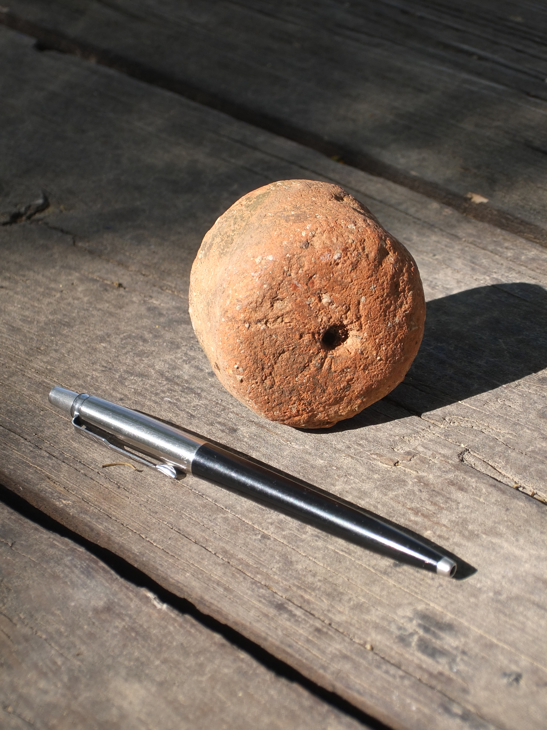 Small, clay weight-like object discovered in the Bersabe ruin